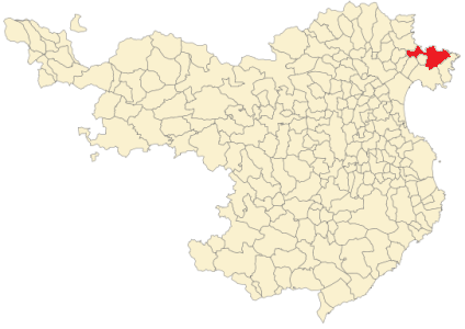 El Port de la Selva